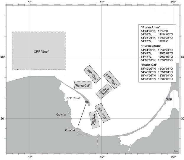 Outbreak of World War 2: Sectors of deployment of Polish submarines ORP Sęp (vulture), Żbik (wild cat), Ryś (lynx), Wilk (wolf) and Orzeł (eagle) around Hel Peninsula on 1-7 September 1939, under main defensive Polish operational war plan for submarines "Worek" (sack). Individual sub's parts of "Rurka" minelaying sectors visible, as complimentary to "Worek" plan.